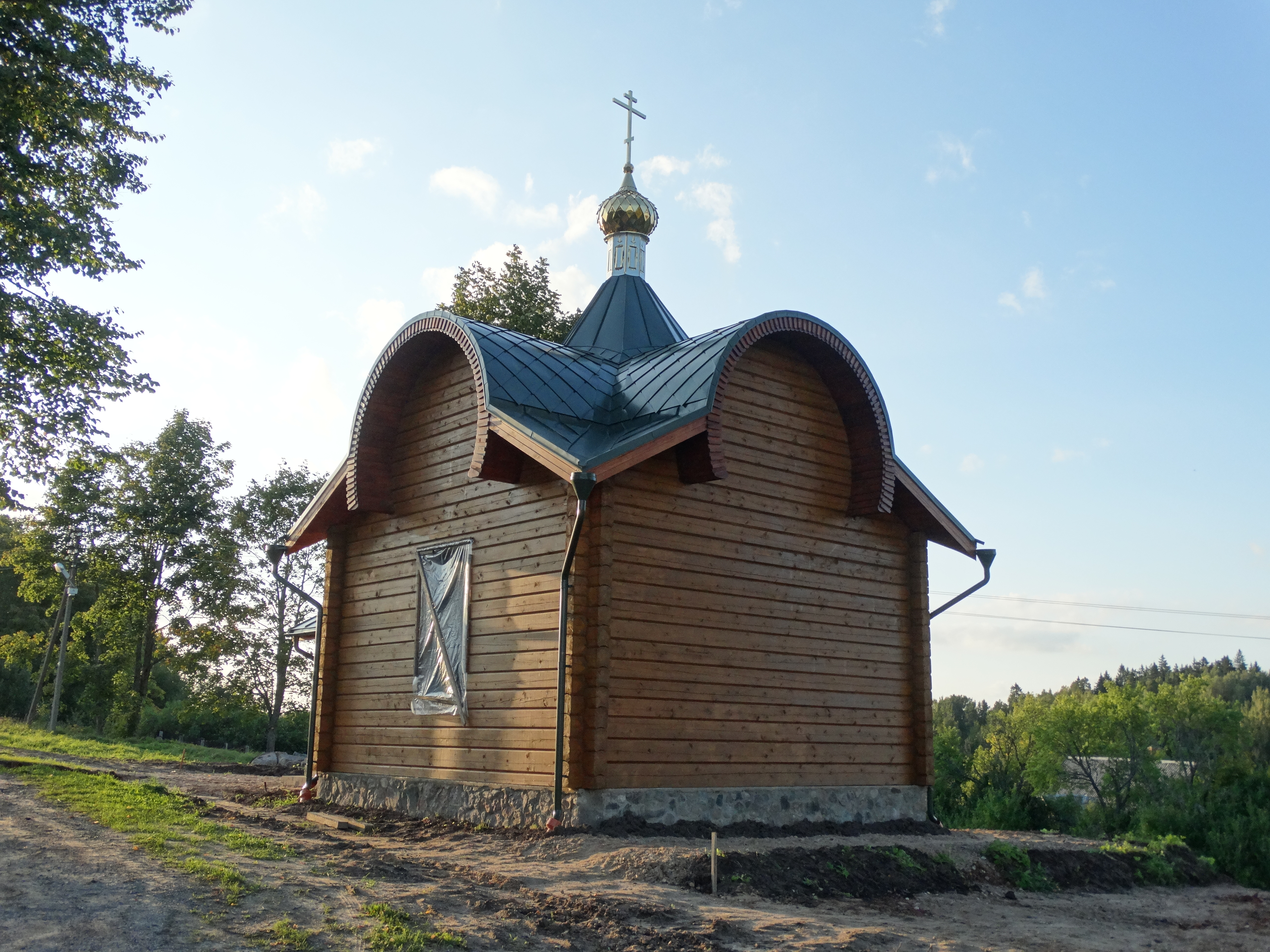 Chapel of Old Believers (new), Degučiai, Zarasai district, Lithuania